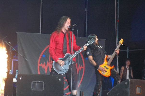 Pain_krok_2008